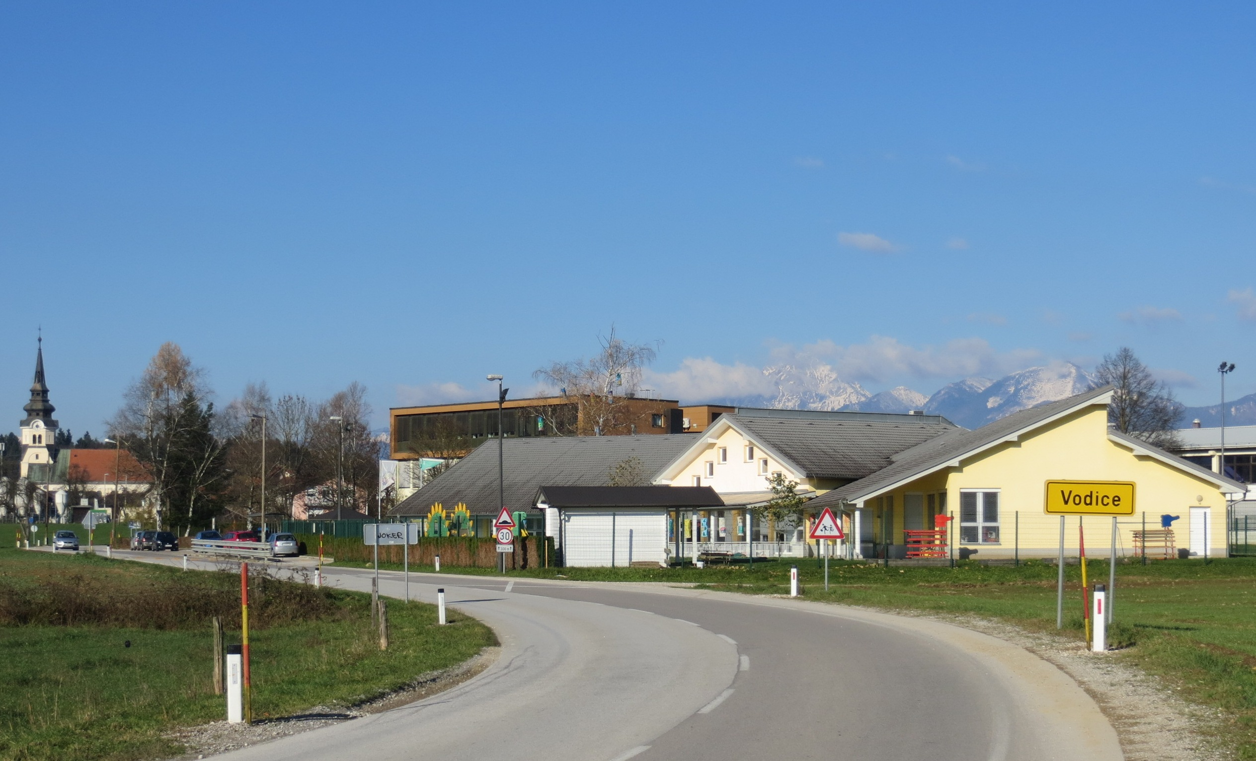 Vodice, Municipality of Vodice, Slovenia